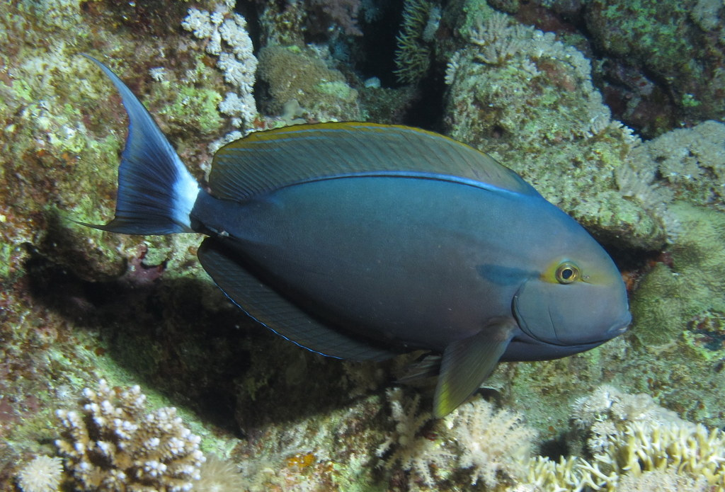 Black surgeonfish, Acanthurus gahhm at Abu Dabab Reefs, Red Sea, Egypt #SCUBA